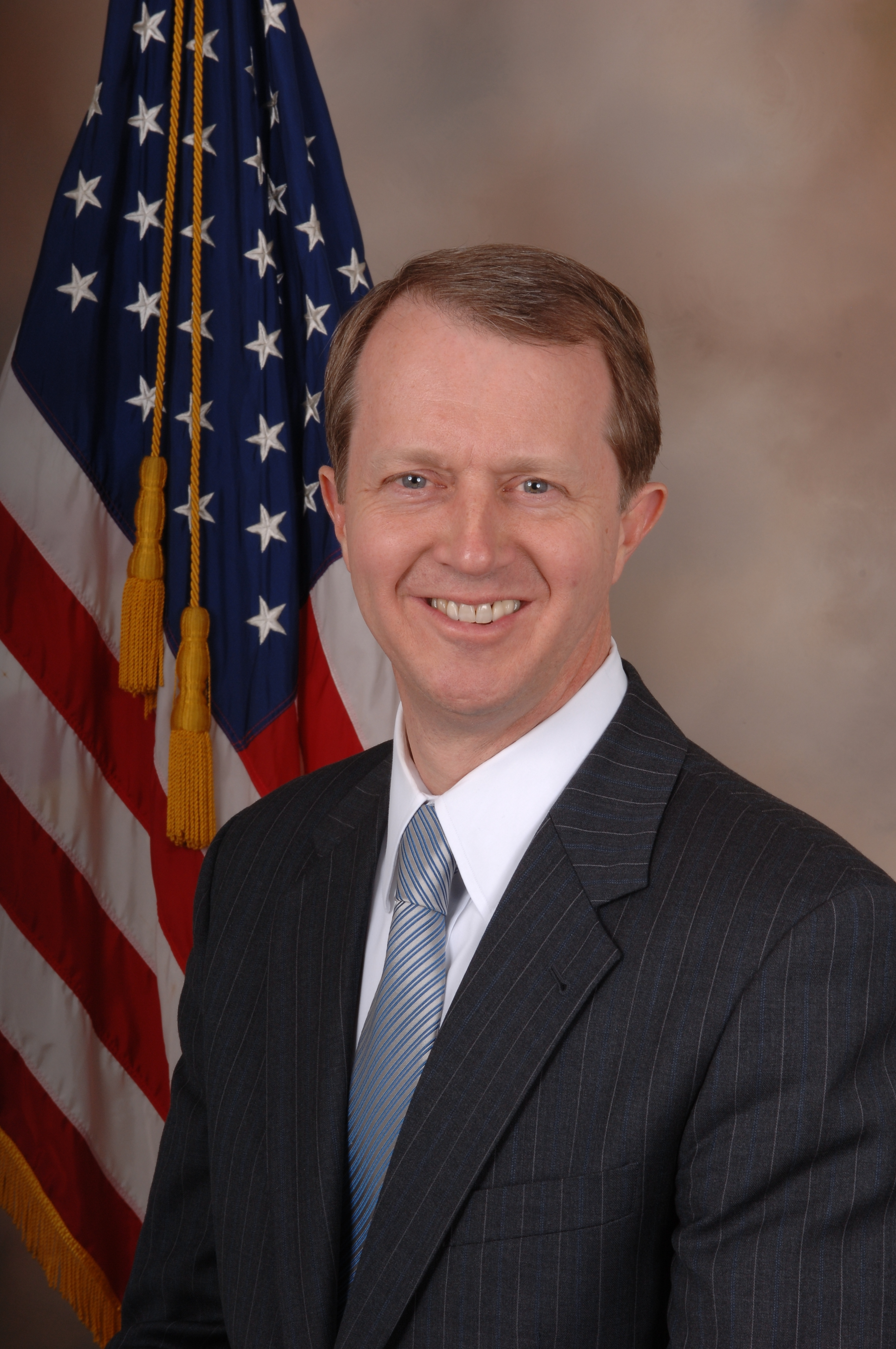 John Adler, member of the United States House of Representatives.